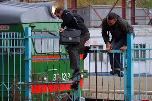 Passengers without tickets (stowaways) climbing over a fence of train station to avoid jumping over turnstiles. On the background the ER2-1213 electric train is visible